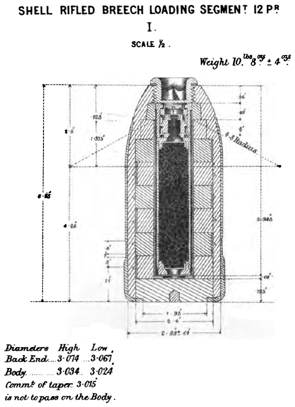 Diagram showing construction of Mk I Segment shell for RBL 12 pounder Armstrong gun.